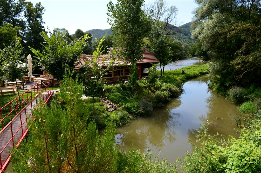 Raska Municipality -river Ibar